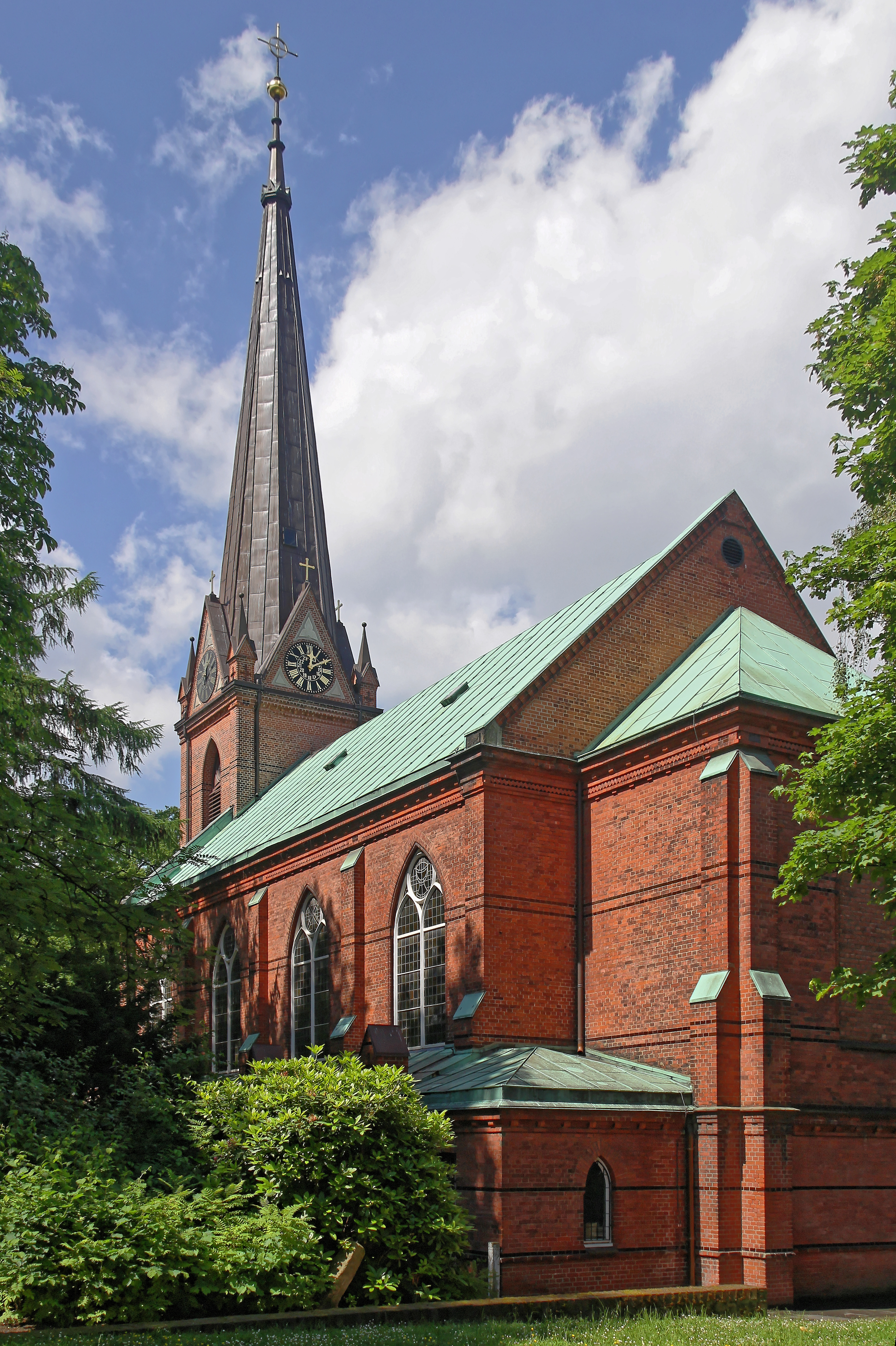 Hamburg-Alsterdorf, church St. Nicolaus